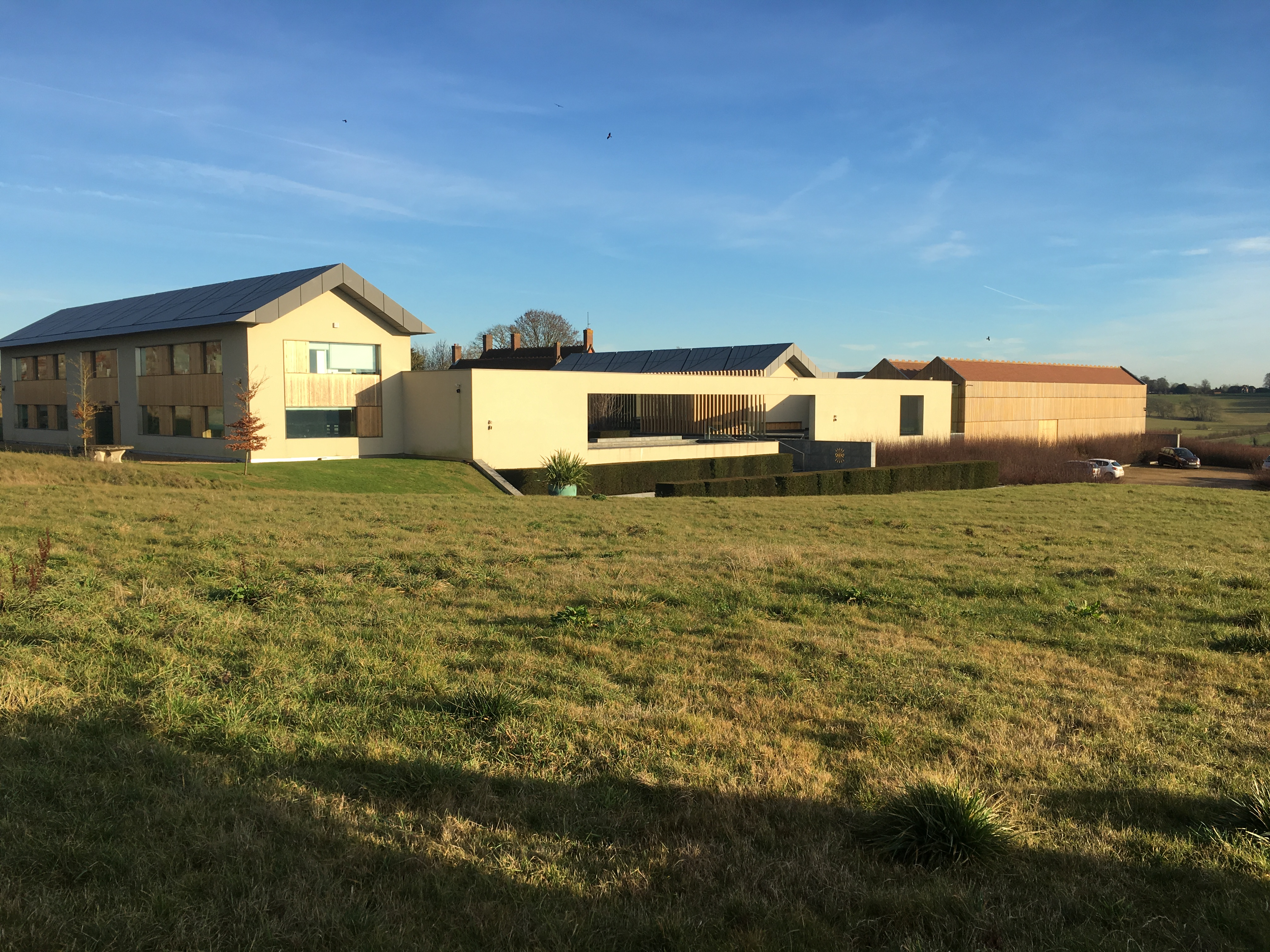 Windmill Hill on the Waddesdon Manor Estate